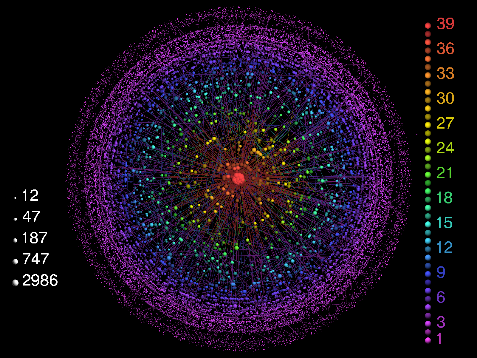 Picture obtained with the LaNet-vi software, for a network of the Internet Autonomous Systems provided by the DIMES association.